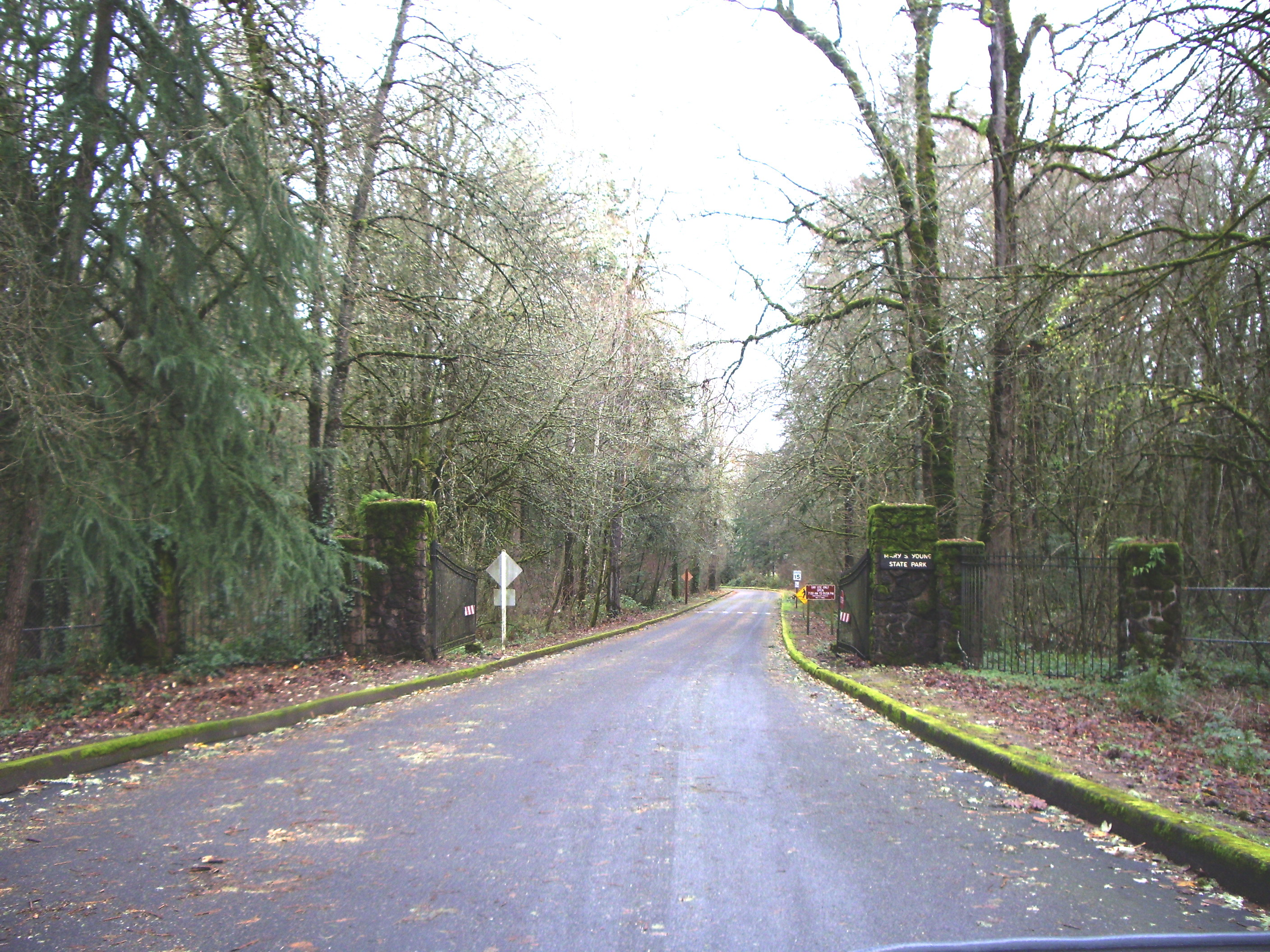 Entrance to Mary S Young State Park.